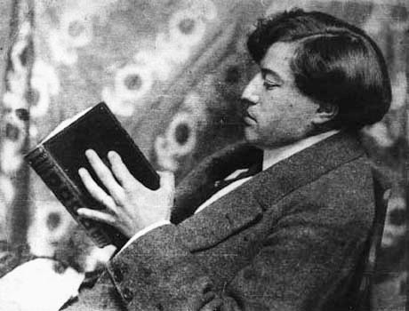 D. Shevardnadze. Tbilisi, the 30-ies, 13 x 18. Dimitri Shevardnadze (Georgian: დიმიტრი შევარდნაძე) (December 1, 1885 – 1937) was a Georgian painter, art collector and intellectual purged during the Stalinist repressions.